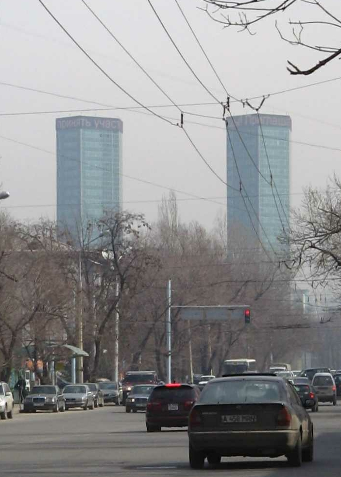 Almaty Towers buildings in Almaty, Kazakhstan. They are in the list of the tallest buildings in the country